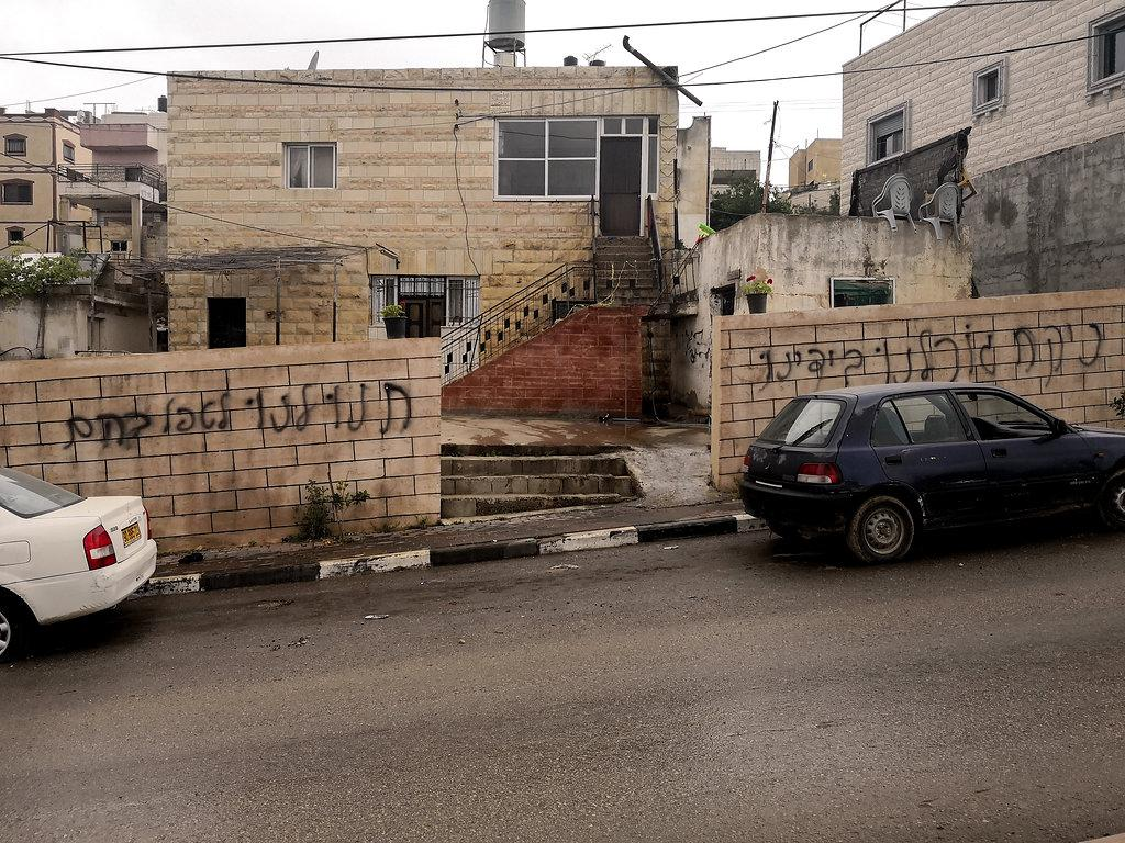 On the night of 25 April 2018, settlers entered the village of Jalud, Nablus District. They slashed the tires of four vehicles, including a bus, and spray-painted graffiti in Hebrew on the walls of homes. Photo shows the text “Let us handle them”, spray-painted in Hebrew on the wall of Muhammad Hamud’s home. Photo by Salma a-Deb’i, B’Tselem, 26 April 2018.